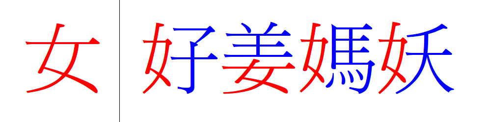 The 38th radical from the Kangxi Dictionary is formed by three strokes: ⼥ which form together the character that means 'woman'.